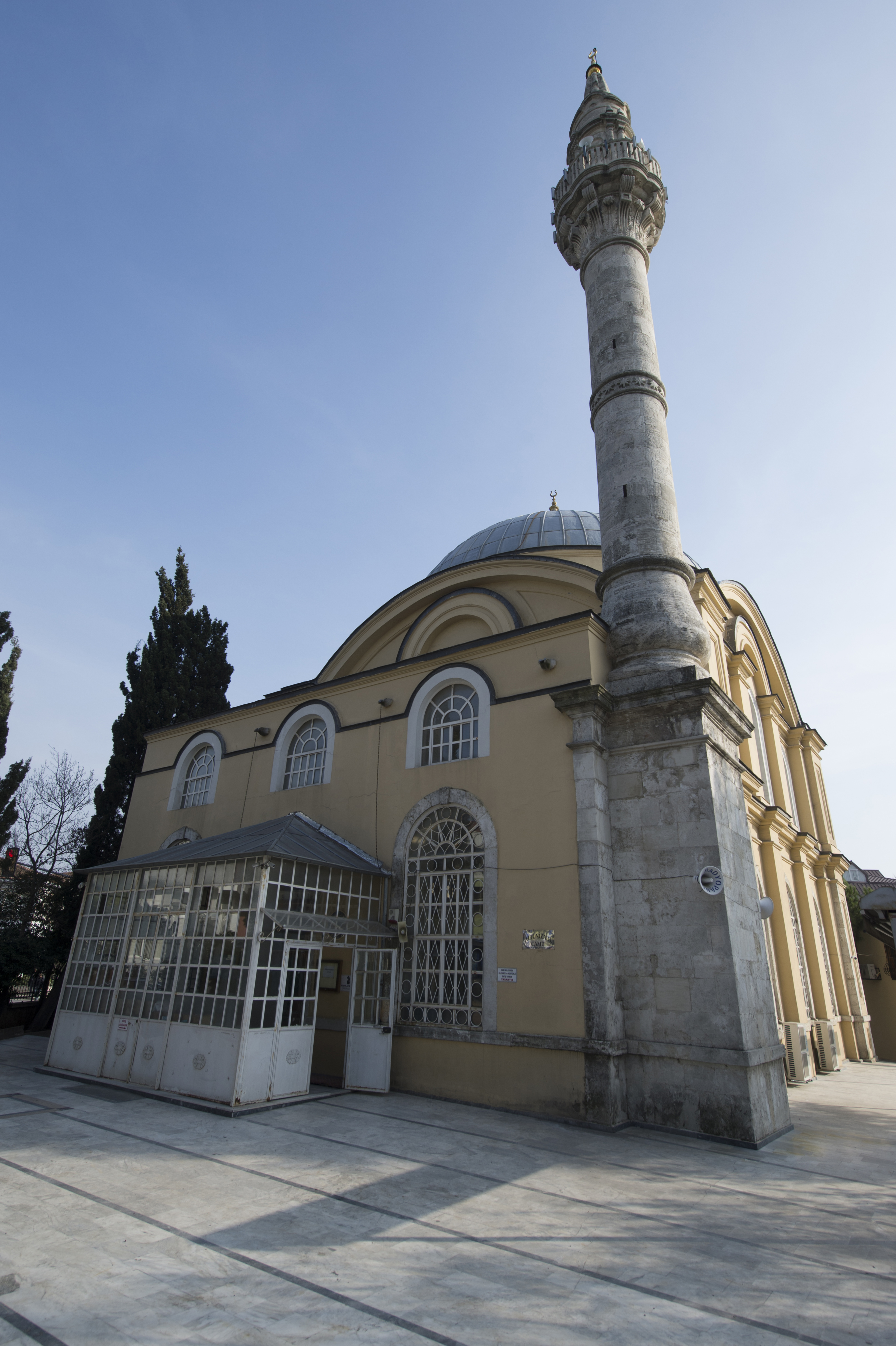 Altunizade mosque or Zühtü Ismail Pasha Mosque is located in the district of Üşküdar of Istanbul. It dates from the Ottoman period and was built by Ismail Pasha Zühdü altunizade. The construction of the mosque began in 1865, it was opened for worship in 1866, one year later. The mosque has undergone an extensive restoration process in 2005. The original plan was built as a mosque. Later a cemetery, a fountain and rows of shops were added.